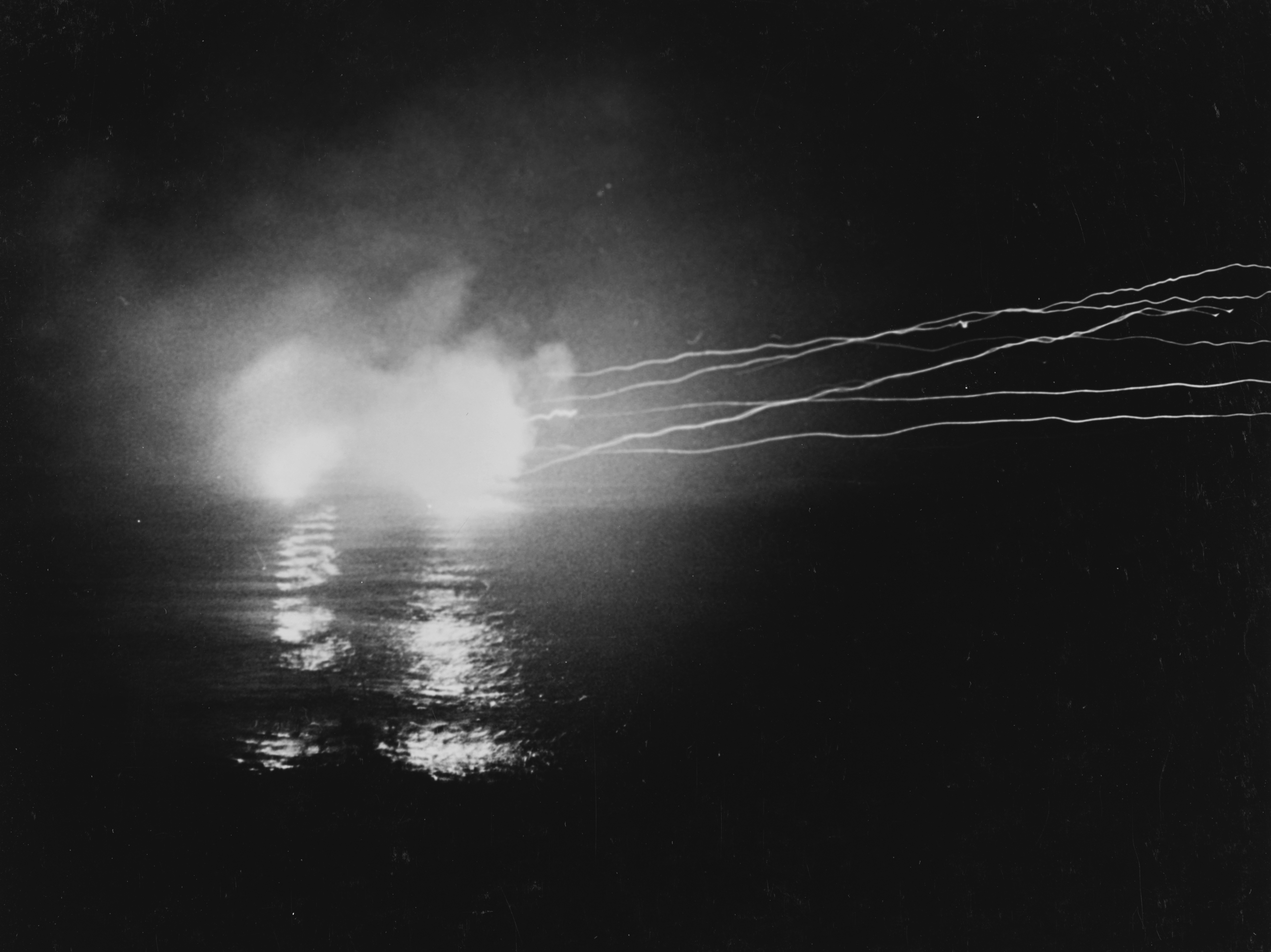 The U.S. Navy light cruiser USS Helena (CL-50) firing during the Munda-Vila Bombardment, 13 May 1943, as seen from USS Honolulu (CL-48). The gunfire causes wavy pattern of tracers.